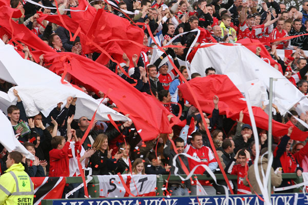 Swindon Town fans at a game away to Yeovil in 2005 organised by the fans group Red Army Loud and Proud